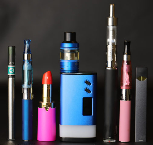 Various types of e-cigarettes